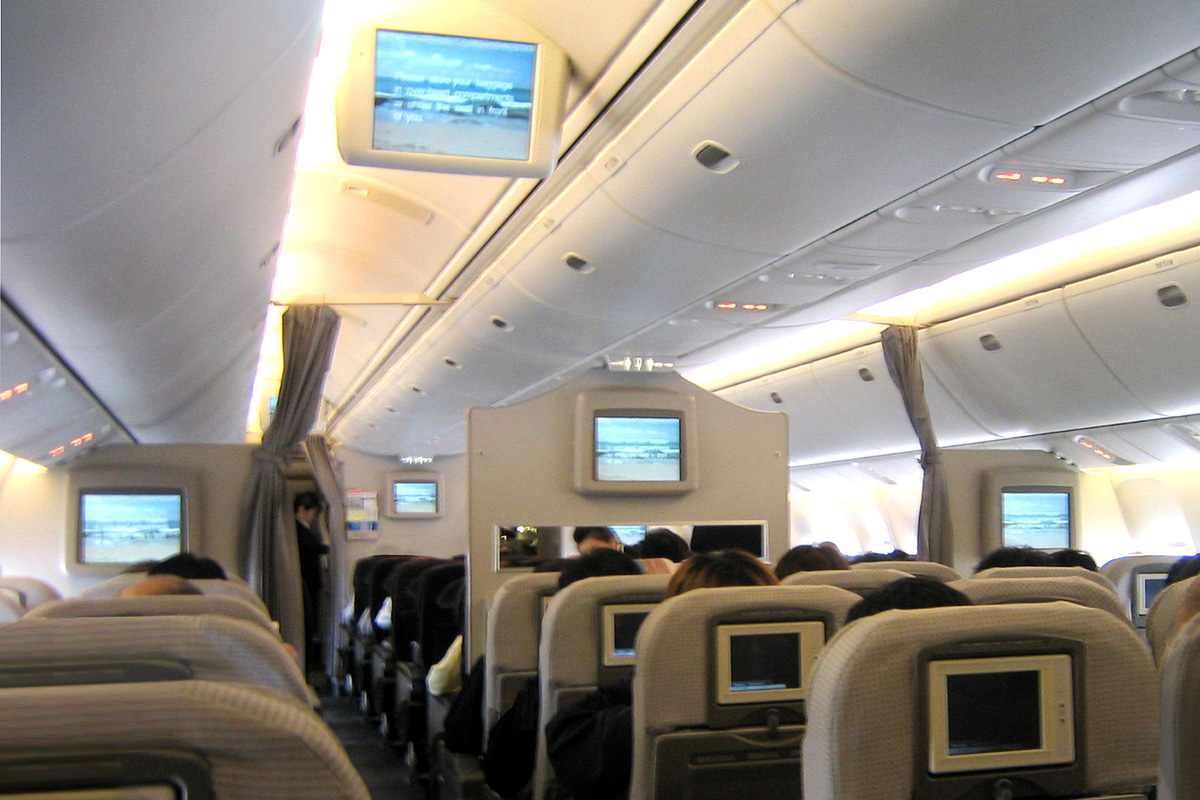 JAL 767